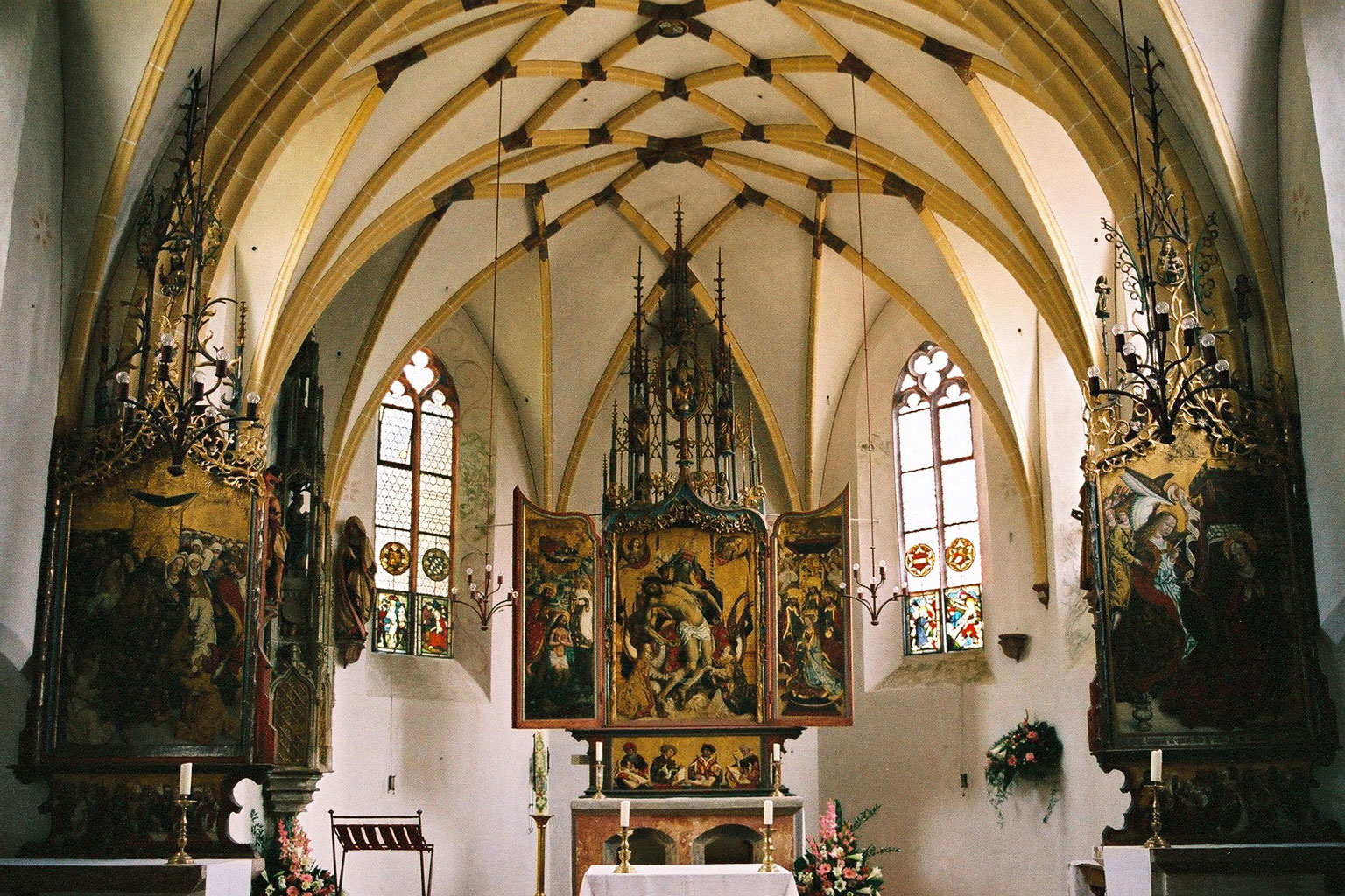 Blutenburg, Munich, interior of the chapel